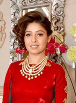 Sunidhi Chauhan at Shane Falguni Peacock preview for Bridal Asia